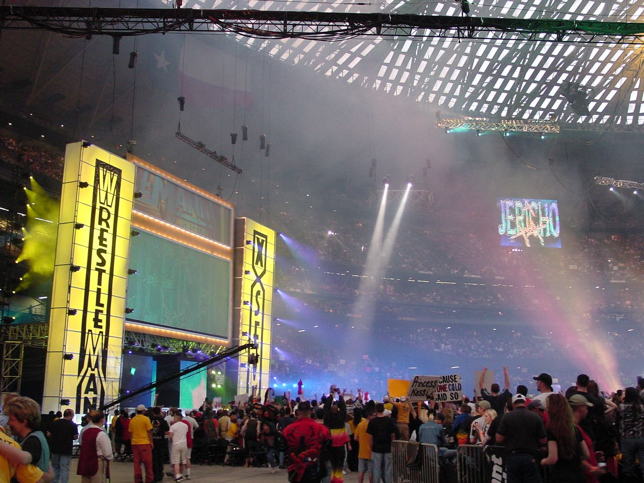 A free image of the stage from the WWE Event WrestleMania X-Seven